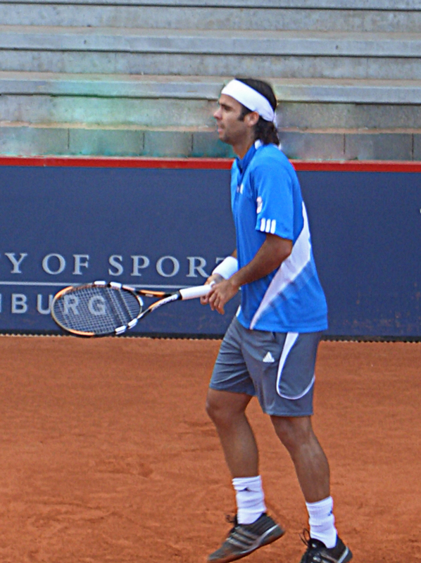 Fernando Gonzalez at the Hamburg Masters 2007